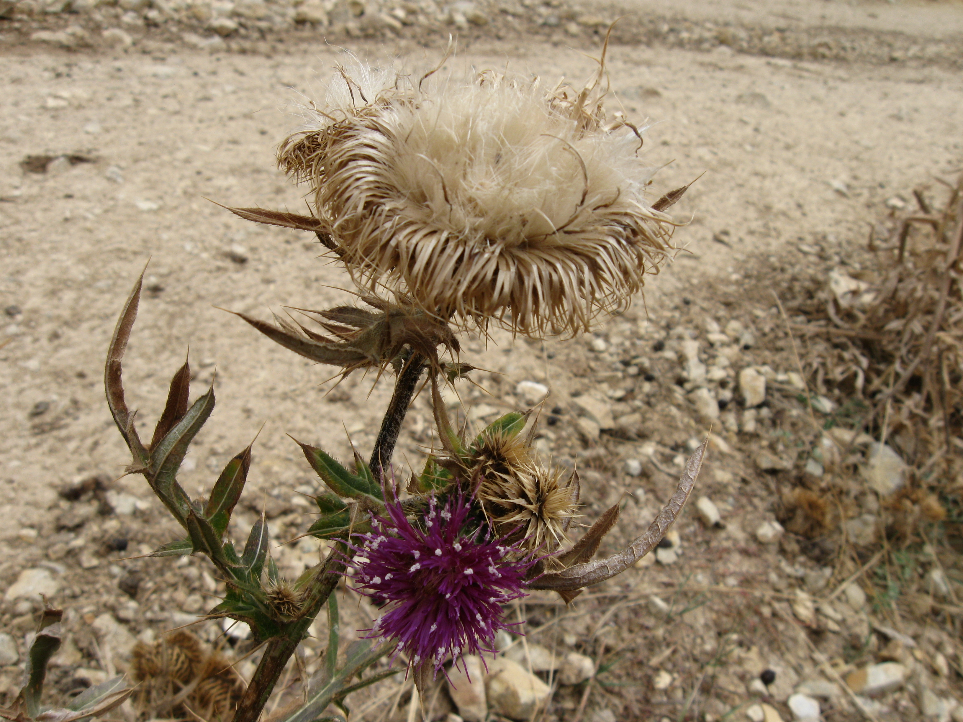 Գտնվում է Շիրակի լեռնաշղթայի Կրաշեն հատվածում